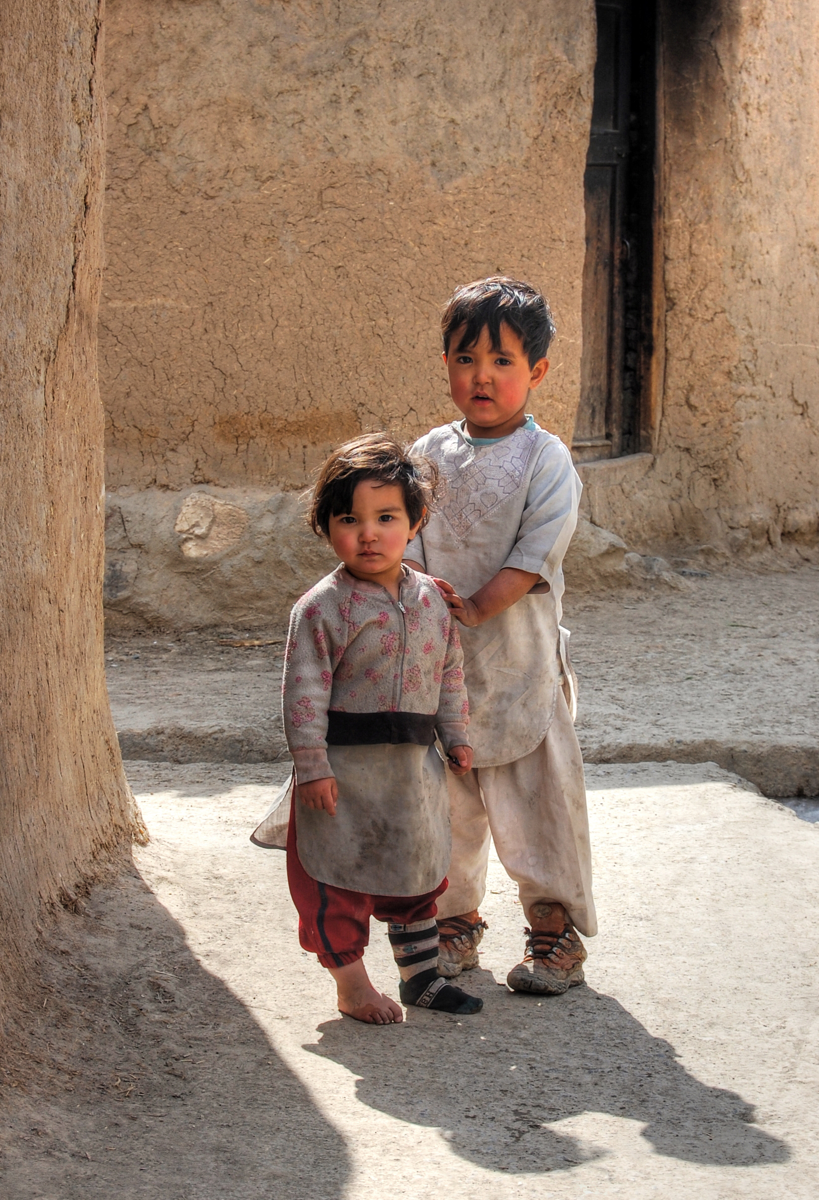 Brother and sister in the street of Qala-i-Shada, Kabul, Afghanistan